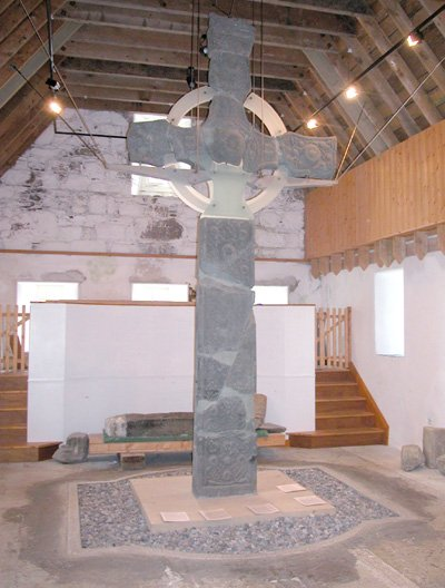 Celtic Cross in the Abbey museum on Iona.